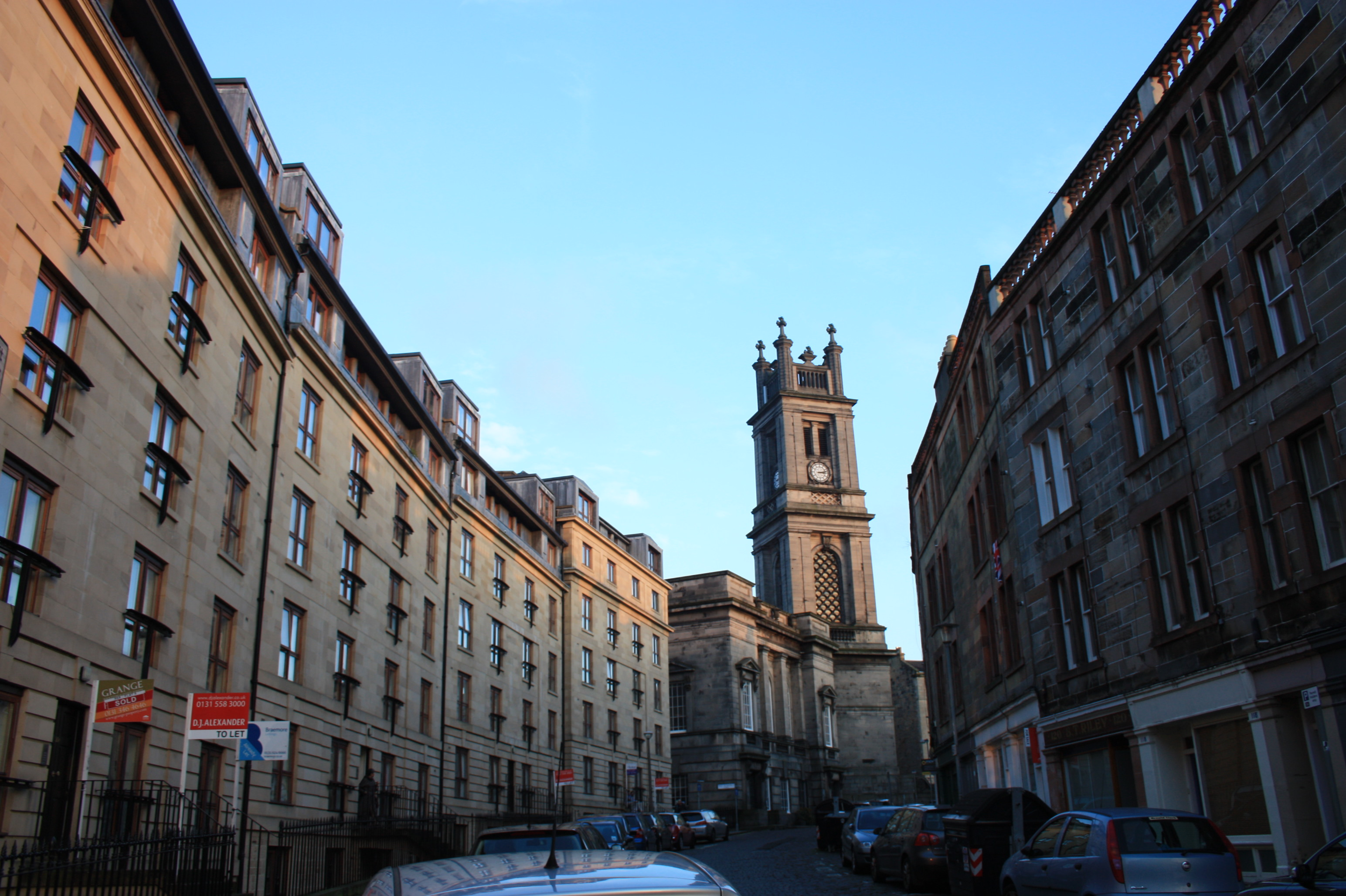 St Stephens Street (east), Edinburgh